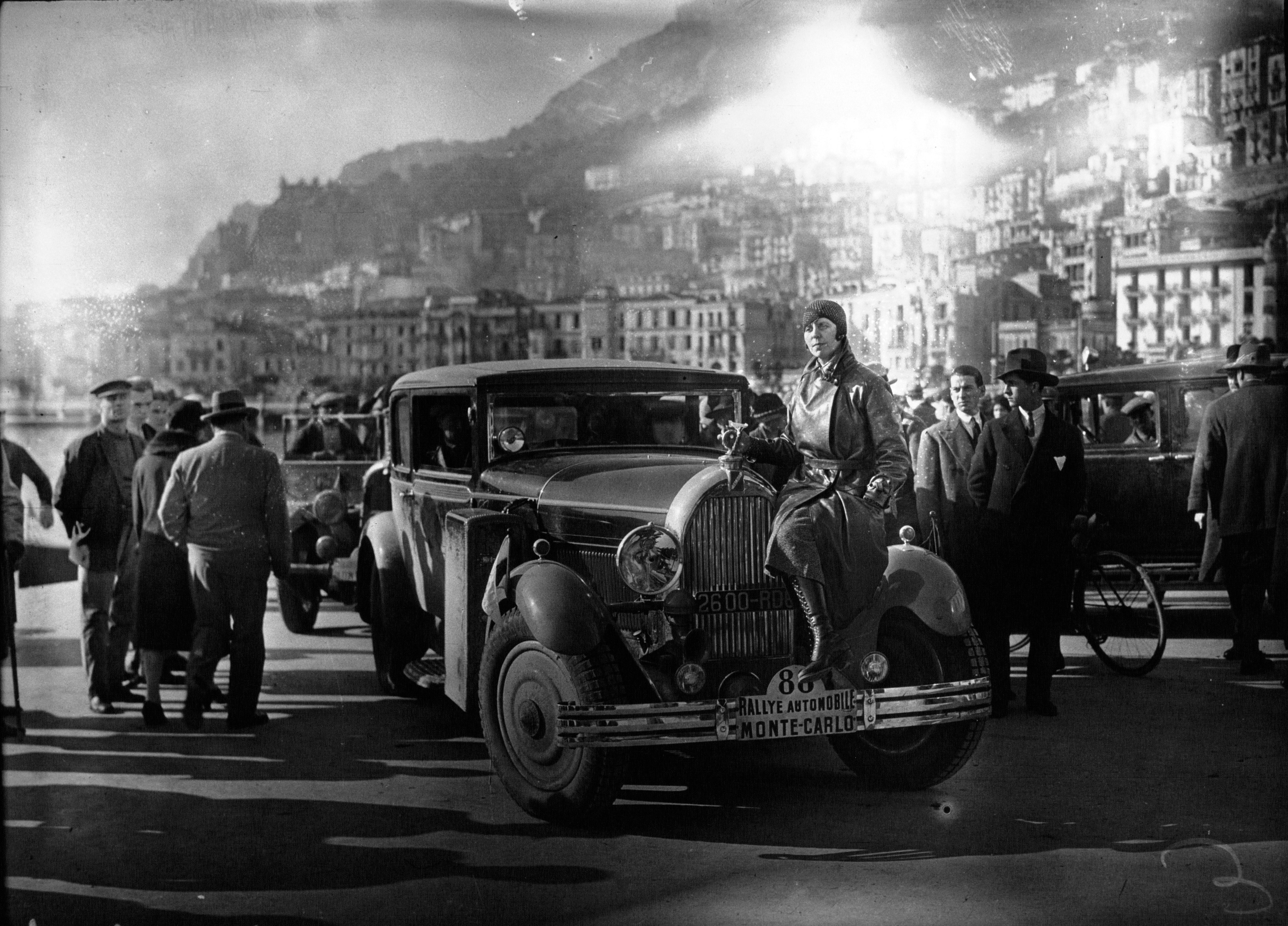 Entry #88 in the 1930 Rallye Monte Carlo is a Talbot with 2,637 ccm engine (perhaps a Talbot Type DUS, which engine is 2,670 ccm), license "2600-RO8" driven by Lucy Schell.[1]